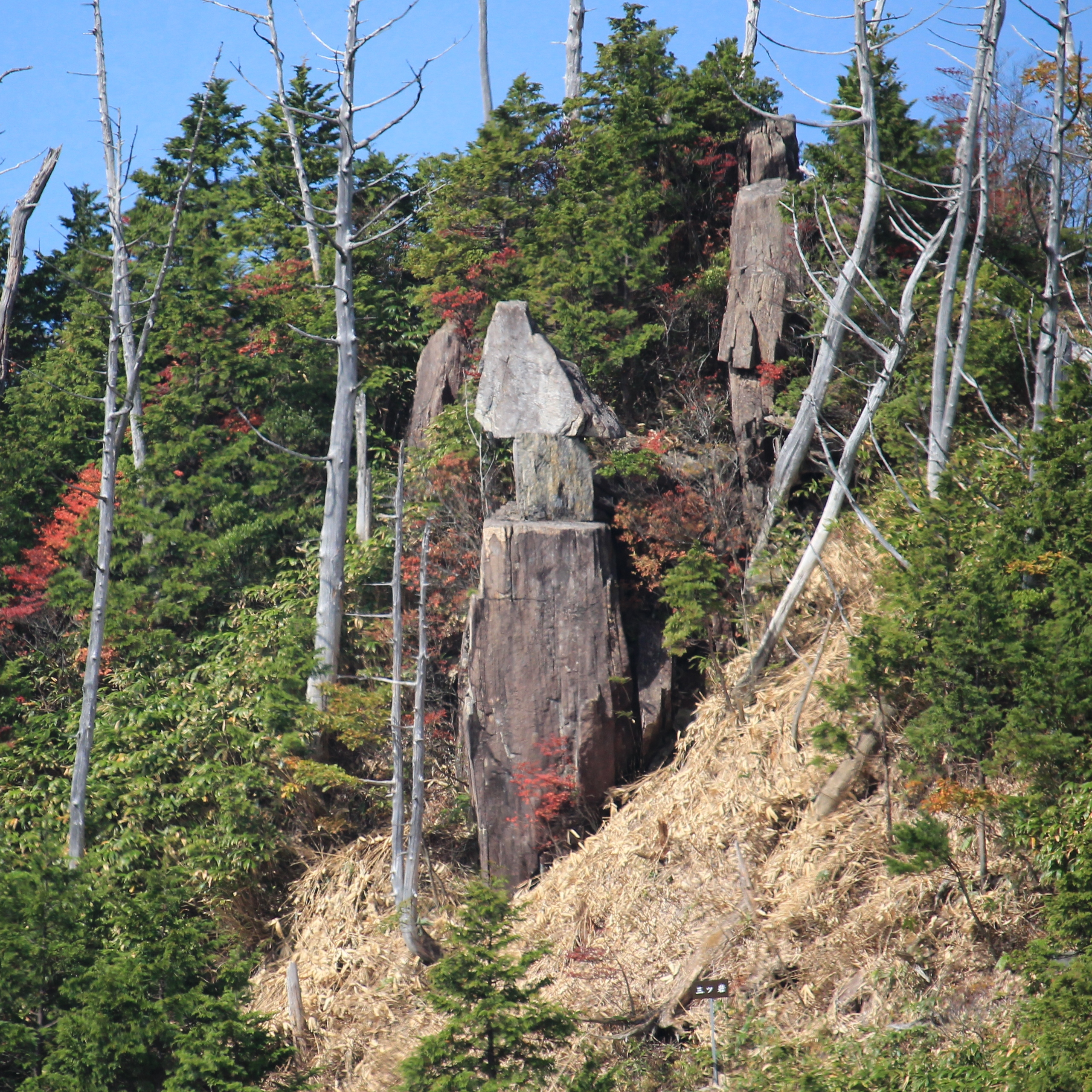 Mitsuiwa on Mount Shirakusa in Gero, Gifu prefecture, Japan.